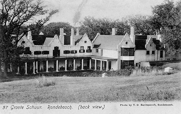 Original black and white postcard depicting the rear view of Groote Schuur, Rondebosch, c. 1905. Originally published c. 1905 by T. D. Ravenscroft, Rondebosch. This media shows a South African Protected Site with SAHRA file reference 9/2/111/0072/001.